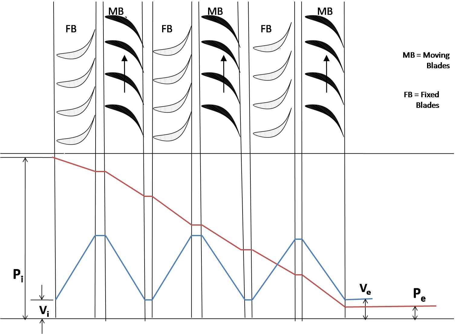 Subik Kumar-Velocity Diagram of Pressure compounded Impulse Turbine